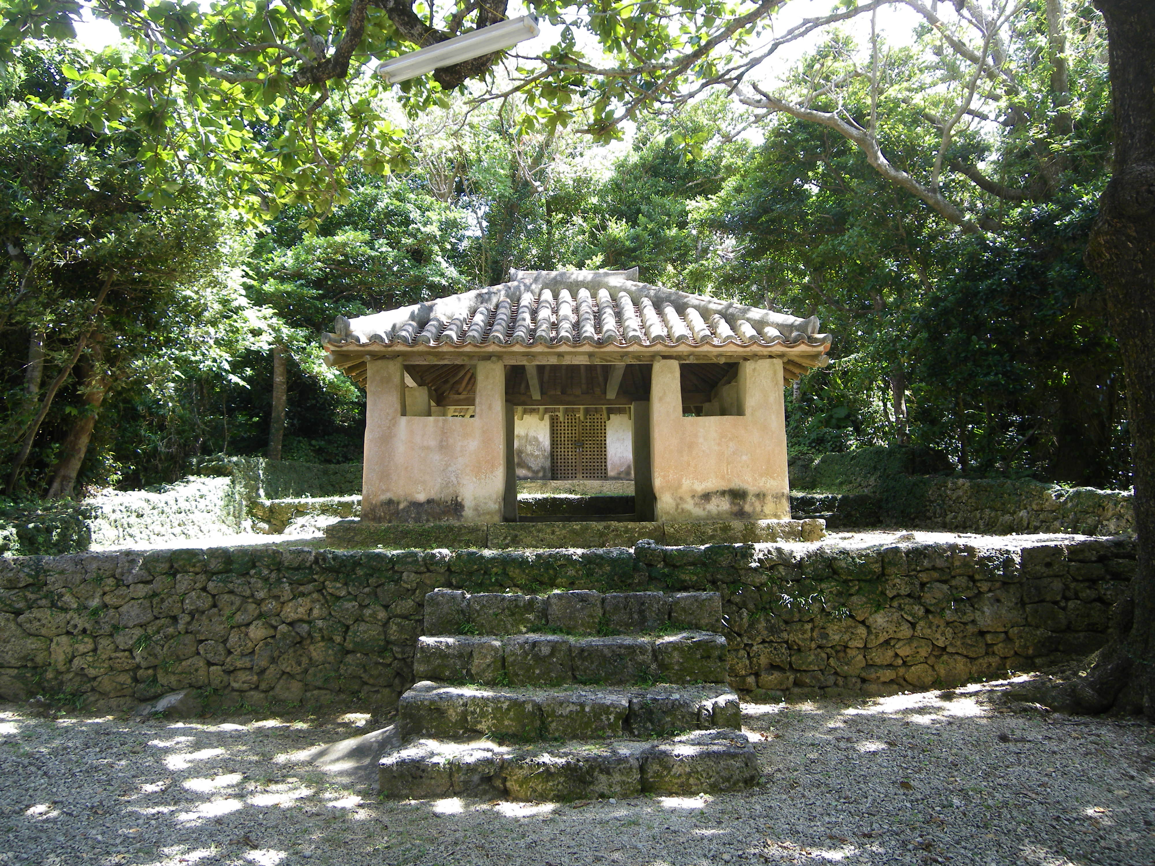 The shrine of Sesoko Tōteikun (Sesoko Earth God).